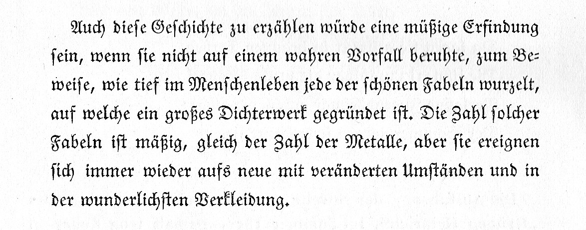 "A Village Romeo and Juliet", Author's preliminary note, first edition 1856